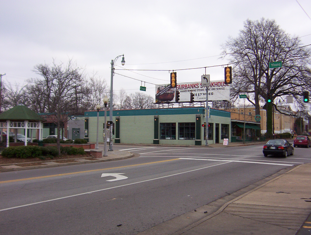 Intersection of Cooper St and Young Ave in the Cooper-Young-District in Memphis, Tennessee. (Jan. 2008) Photo made by: Thomas R Machnitzki I made the photo myself, feel free to use it.